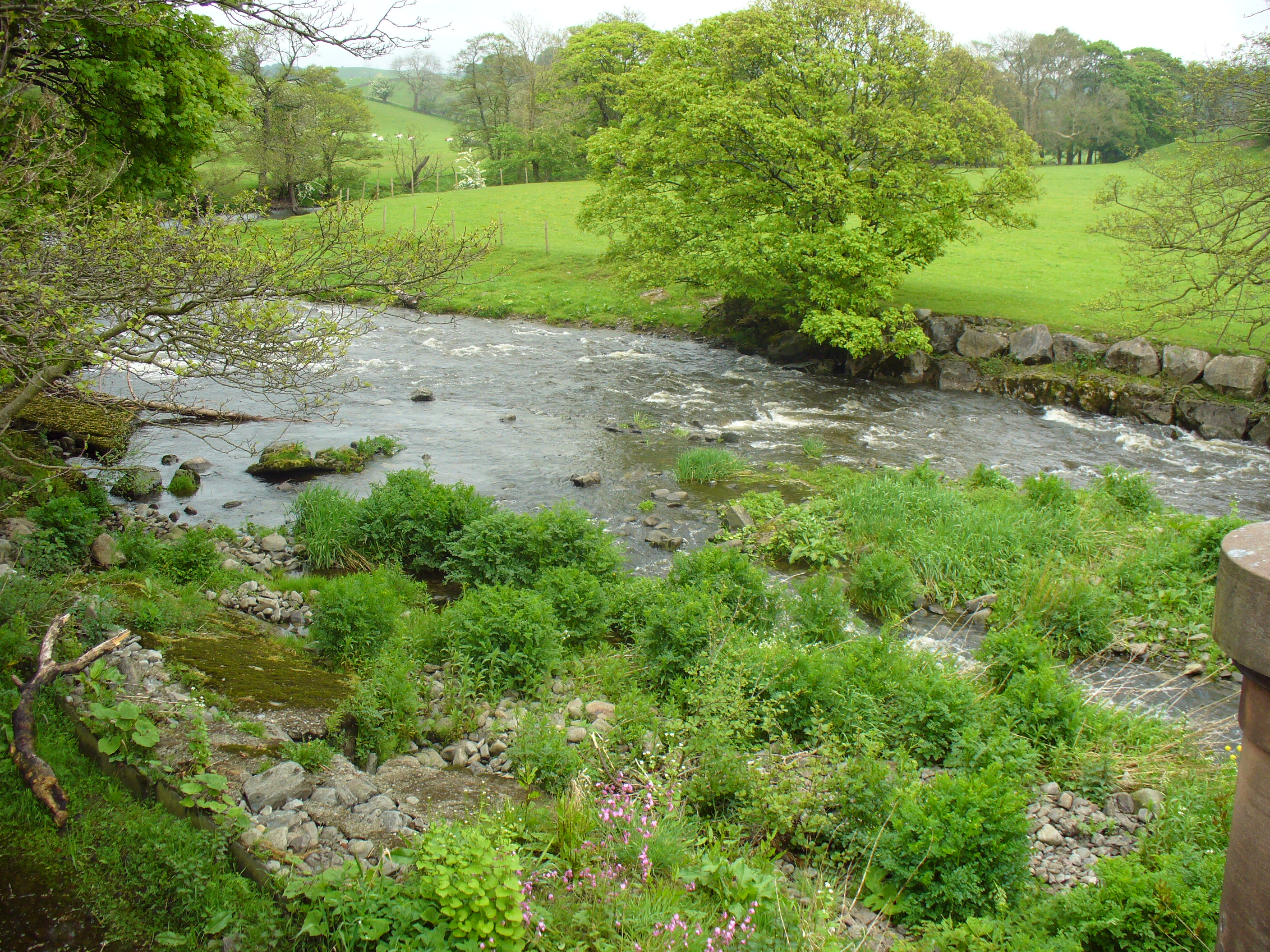 River Mint River Mint just before weir at Millcrest